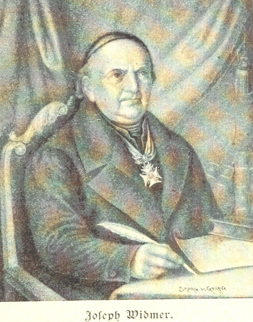 Joseph Widmer Image taken from: Title: "Die Schweiz im neunzehnten Jahrhundert. Herausgegeben von schweizerischen Schriftstellern unter Leitung von P. Seippel" Author: SEIPPEL, Paul. Shelfmark: "British Library HMNTS 9305.h.2." Volume: 02 Page: 109 Place of Publishing: Lausanne Date of Publishing: 1899 Issuance: monographic Identifier: 003330970 Explore: Find this item in the British Library catalogue, 'Explore'. Download the PDF for this book (volume: 02) Image found on book scan 109 (NB not necessarily a page number) Download the OCR-derived text for this volume: (plain text) or (json) Click here to see all the illustrations in this book and click here to browse other illustrations published in books in the same year.